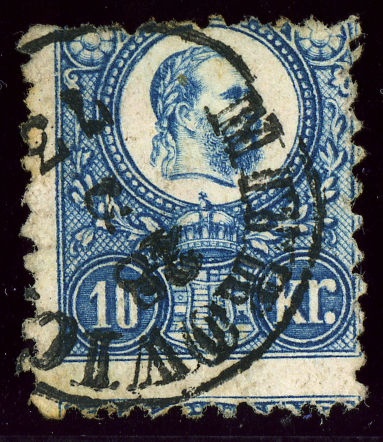 10 kreuzer Hungarian stamp cancelled Mitrovica in 1873